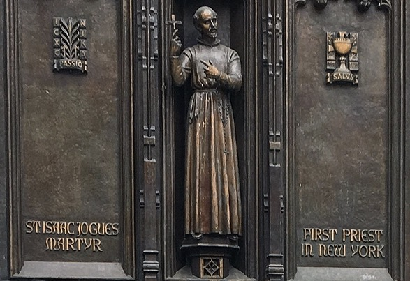 Photo of part of a door to St. Patrick's Cathedral in NYC.